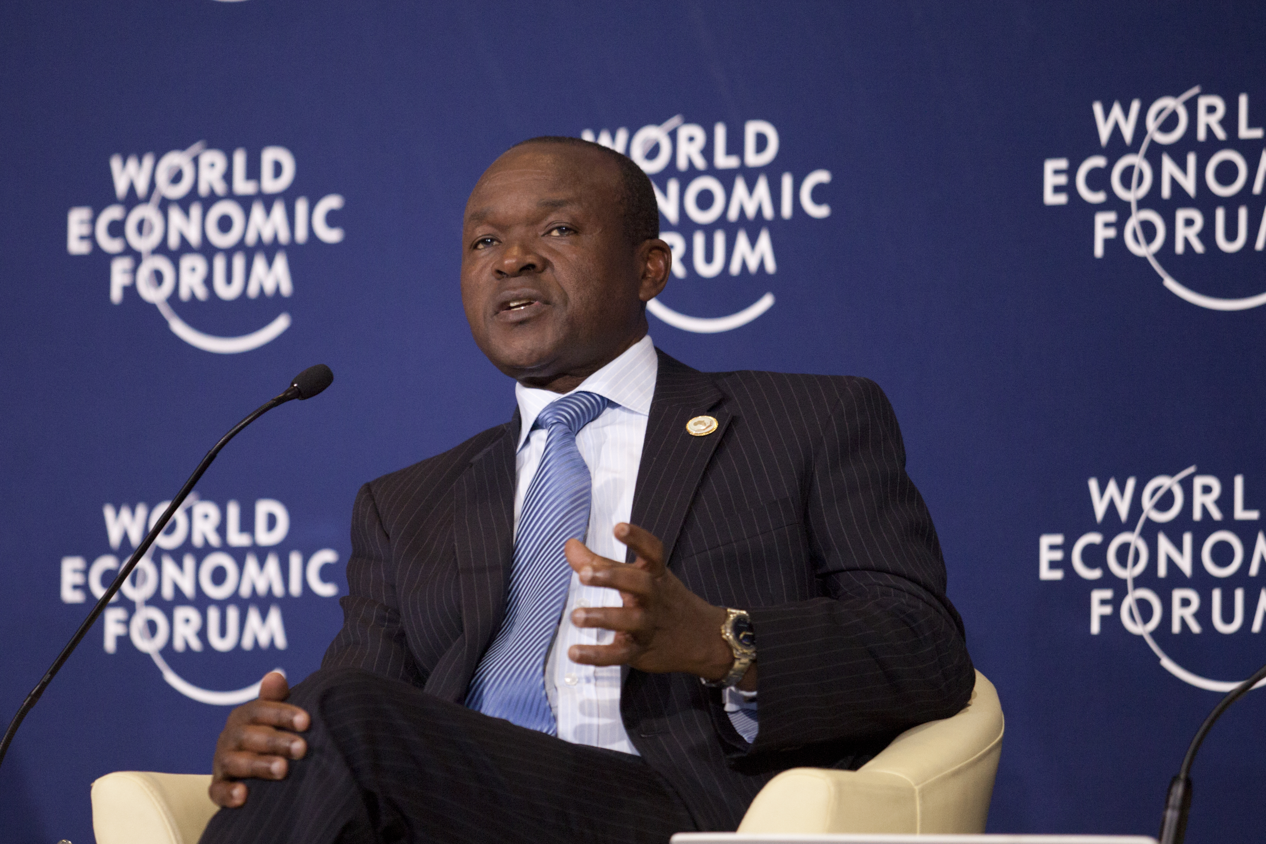 ADDIS ABABA/ETHIOPIA, 09-11 MAY 2012 - Erastus J. O. Mwencha, Deputy Chairperson, African Union, Addis Ababa, captured during the Market Integration Session at the World Economic Forum on Africa held in Addis Ababa, Ethiopia, 9-11 May, 2012.